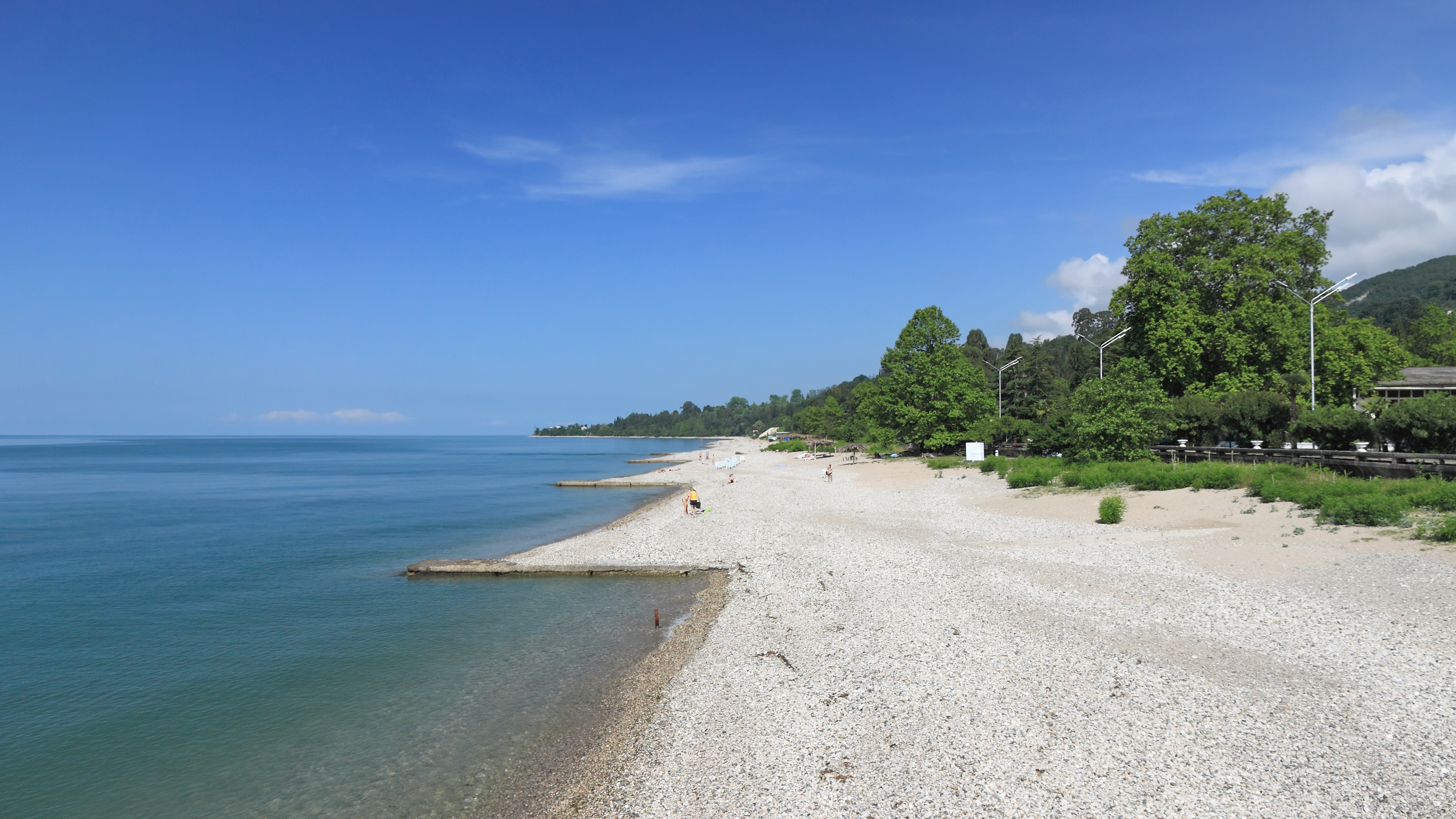 The beach. New Athos, Gudauta District, Abkhazia.